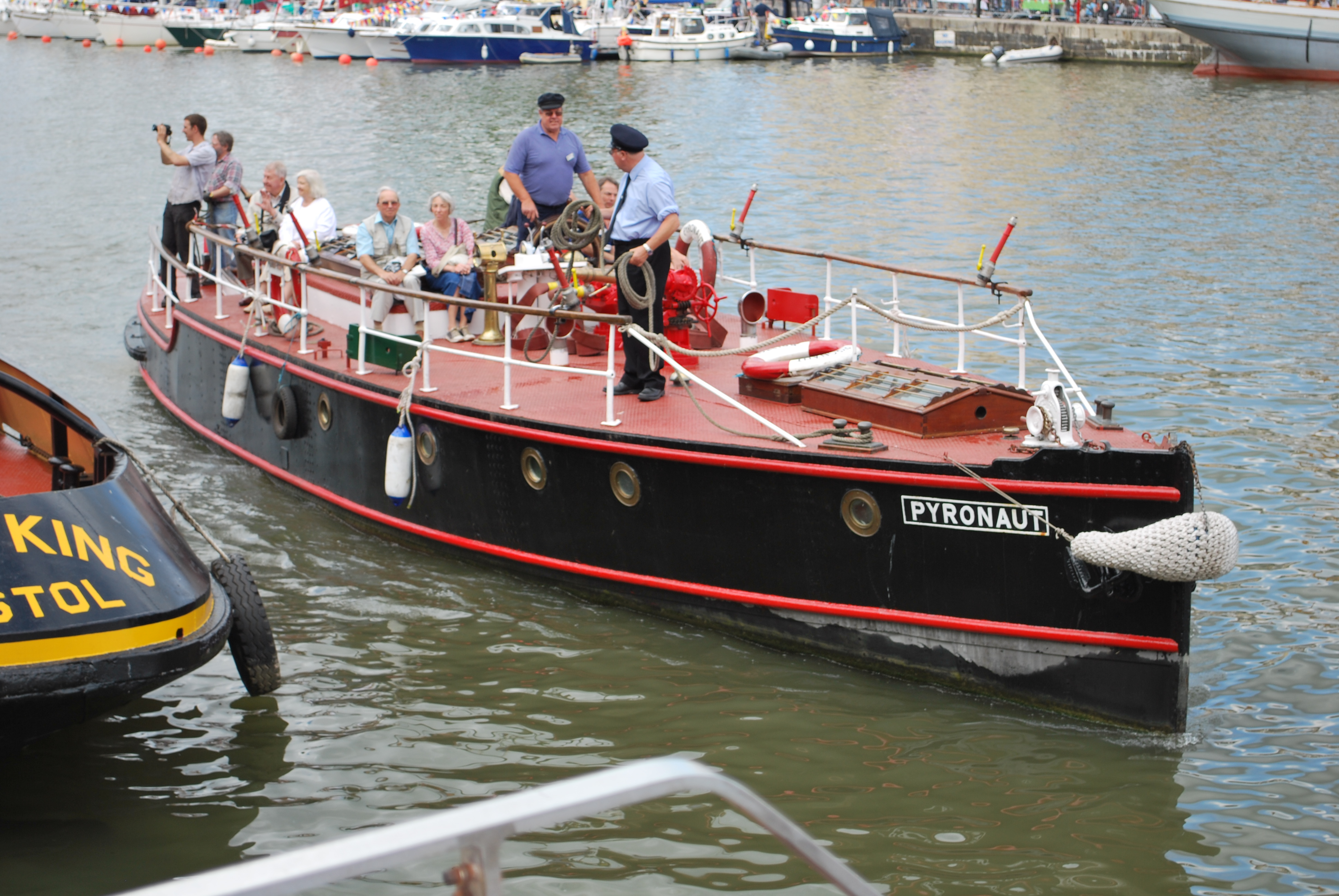 Pyronaut, a fire tender, at Bristol City Docks, 08/10.